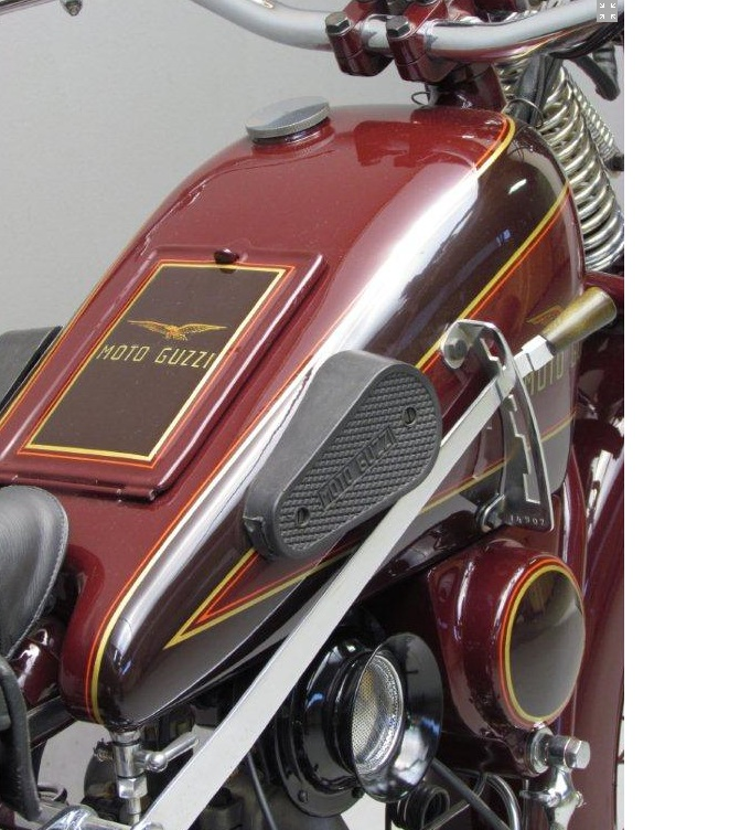 Moto Guzzi Sport 15 Saddle tank with integrated toolbox from 1932